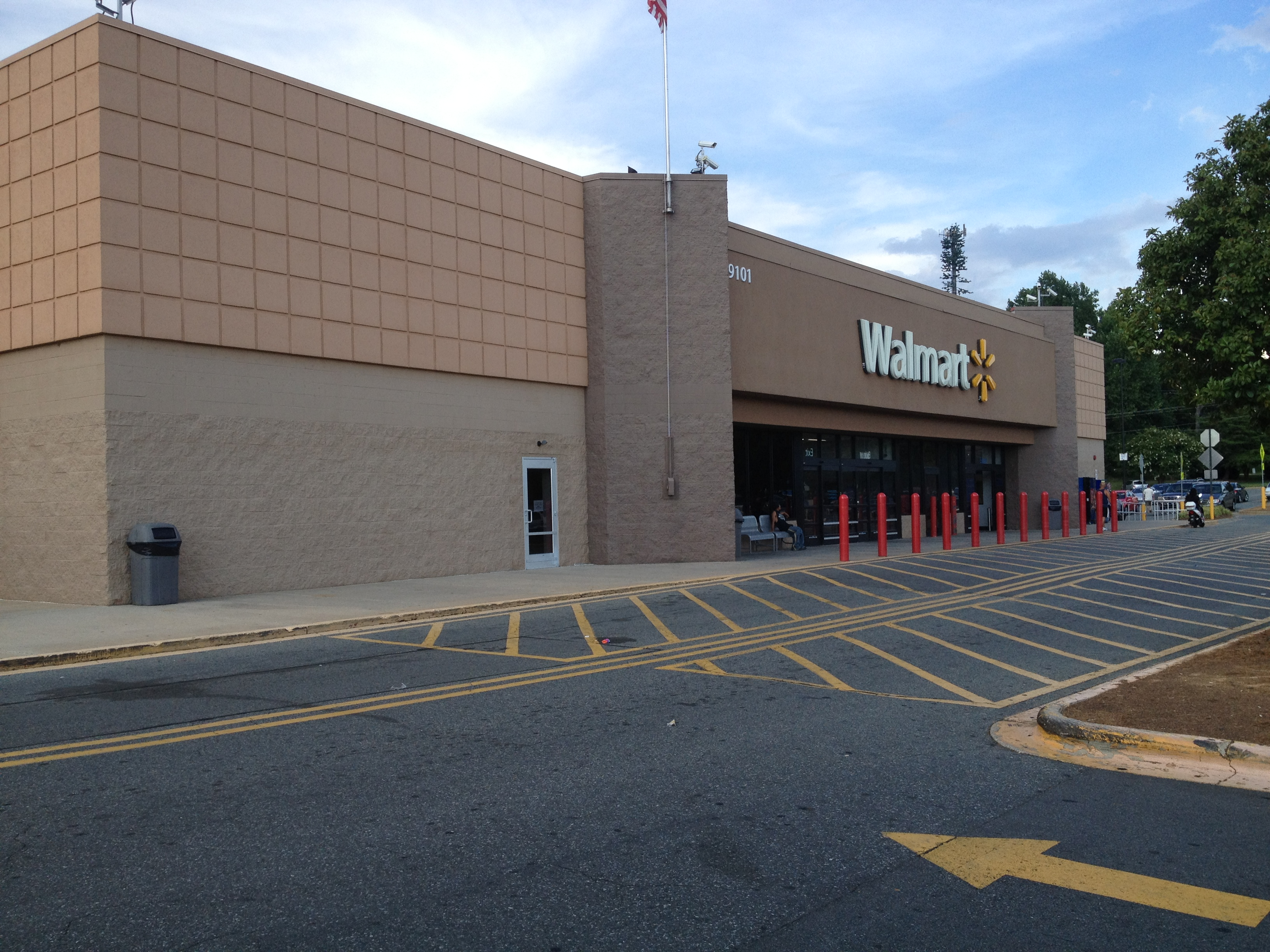 Wal-Mart Albemarle Rd Charlotte, NC